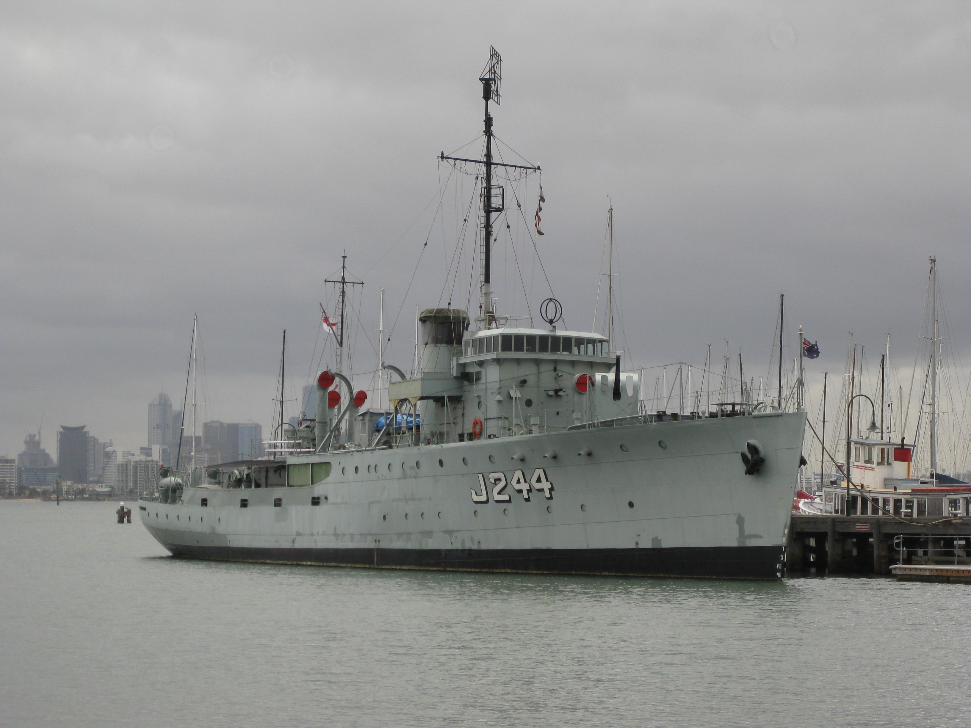 Museum ship ex-HMAS Castlemaine viewed from Commonwealth Park, Williamstown in April 2011